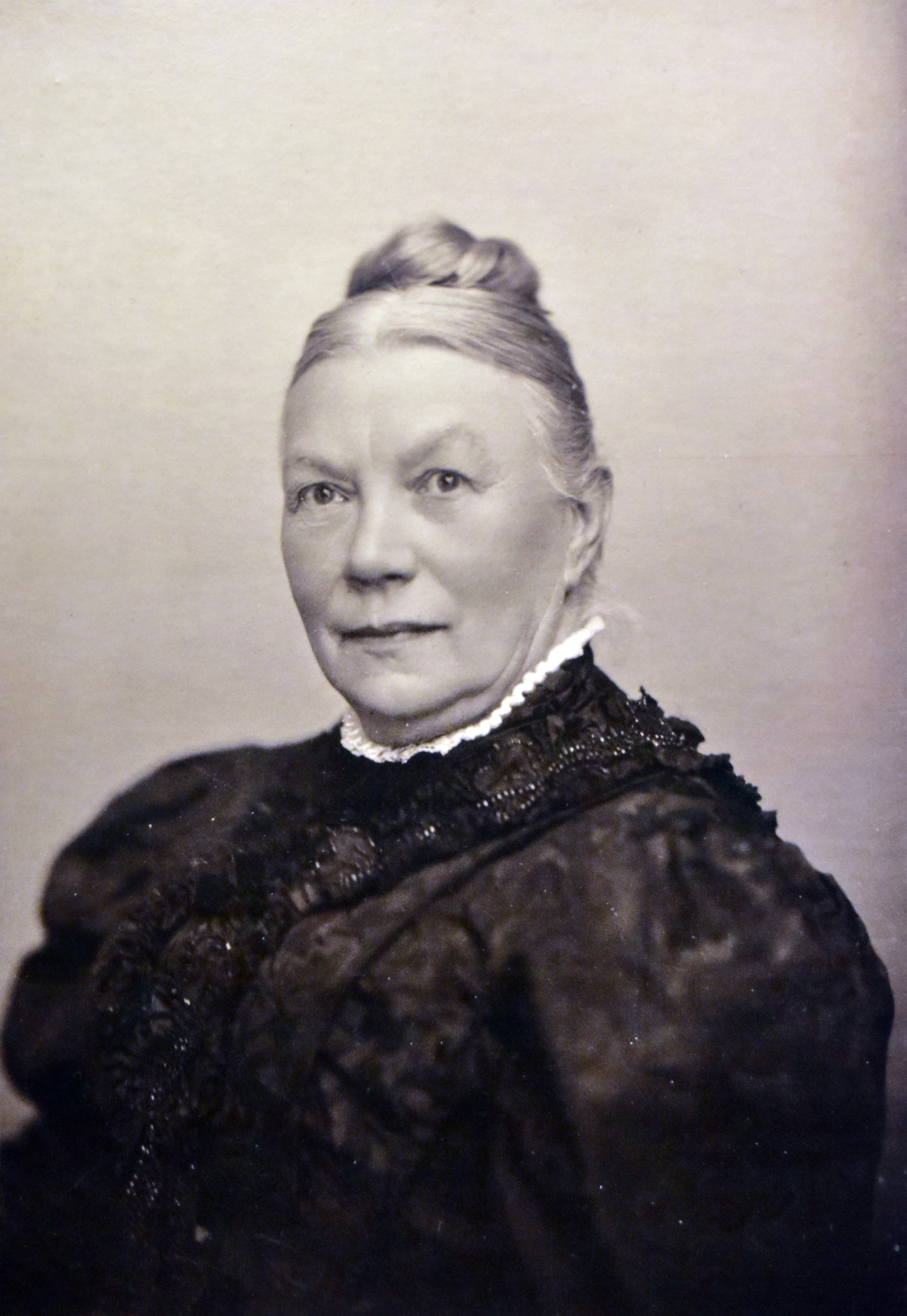 Collection of the Stadtmuseum) in Rapperswil (Switzerland): Ausstellung Der Zeit voraus. Drei Frauen auf eigenen Wegen. Marianne Ehrmann-Brentano Schriftstellerin und Journalistin (1755–1795) ++ Alwina Gossauer Fotografin und Geschäftsfrau (1841–1926) ++ Martha Burkhard Globetrotterin und Malerin (1874–1956) : Alwina Gossauer um 1900.